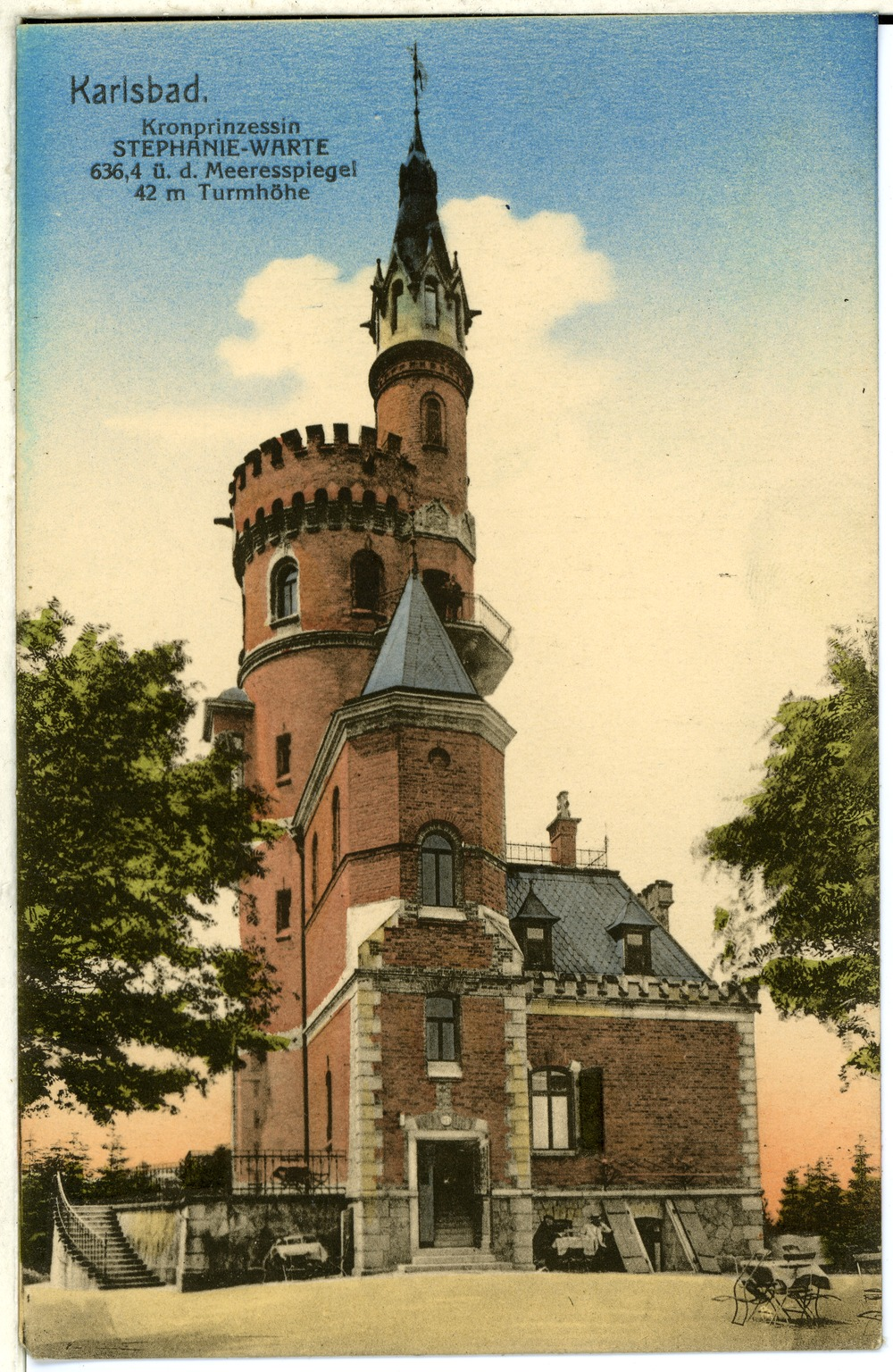 This postcard is from publisher Brück & Sohn in Meißen ( This postcard has a unique number 00617 and is available in a higher resolution at the publisher. This images was uploaded in a cooperation project between Wikipedians and the publisher.